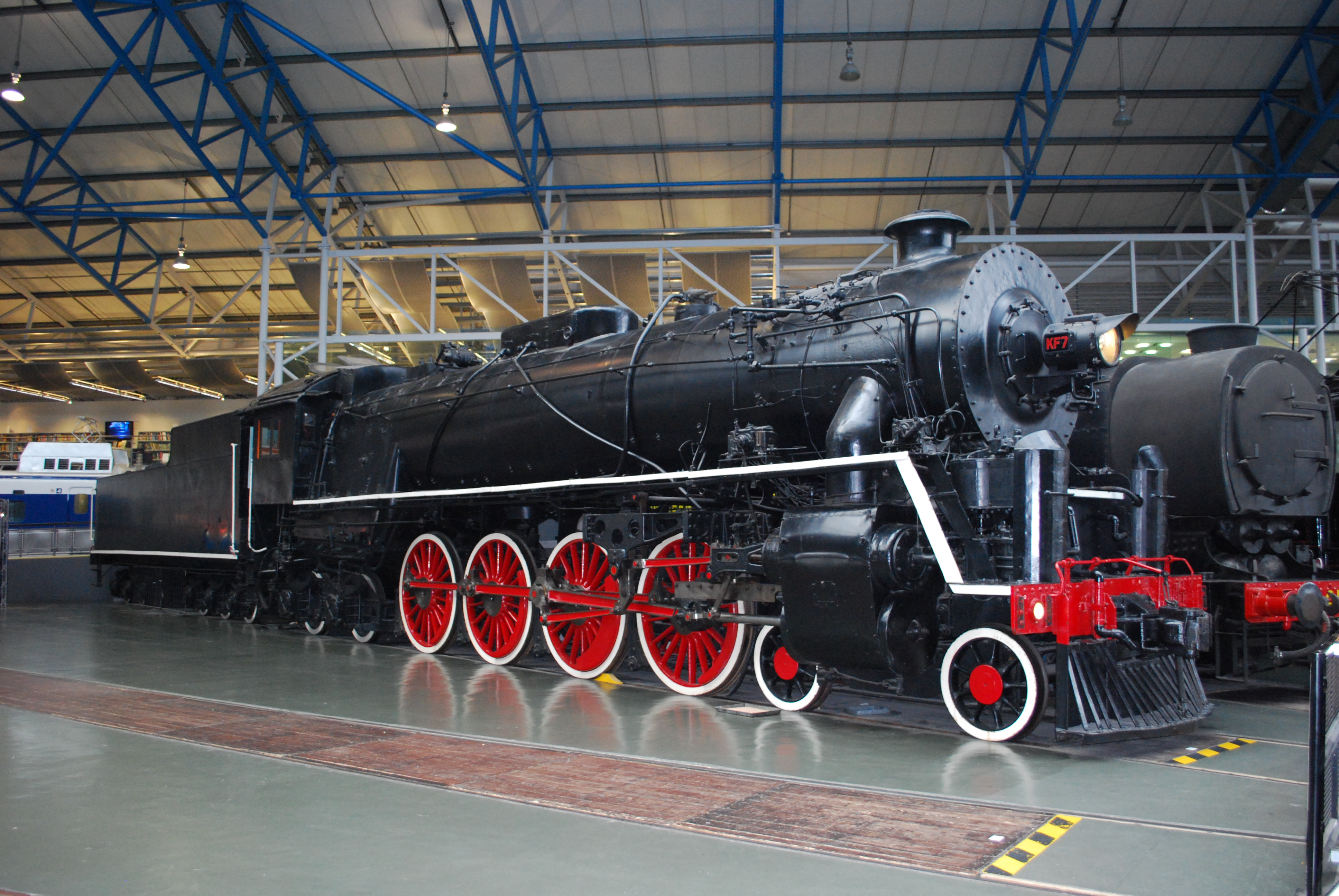 Chinese Railway KF7 Class 4-8-4 No.607 built by Vulcan Foundary 1935.